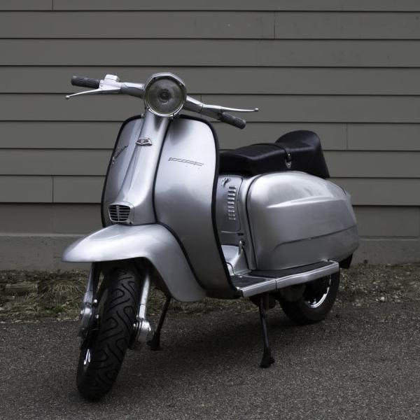 A 1977 Serveta, a Spanish-built Lambretta. Note the carburettor air intake on the toolbox cover.